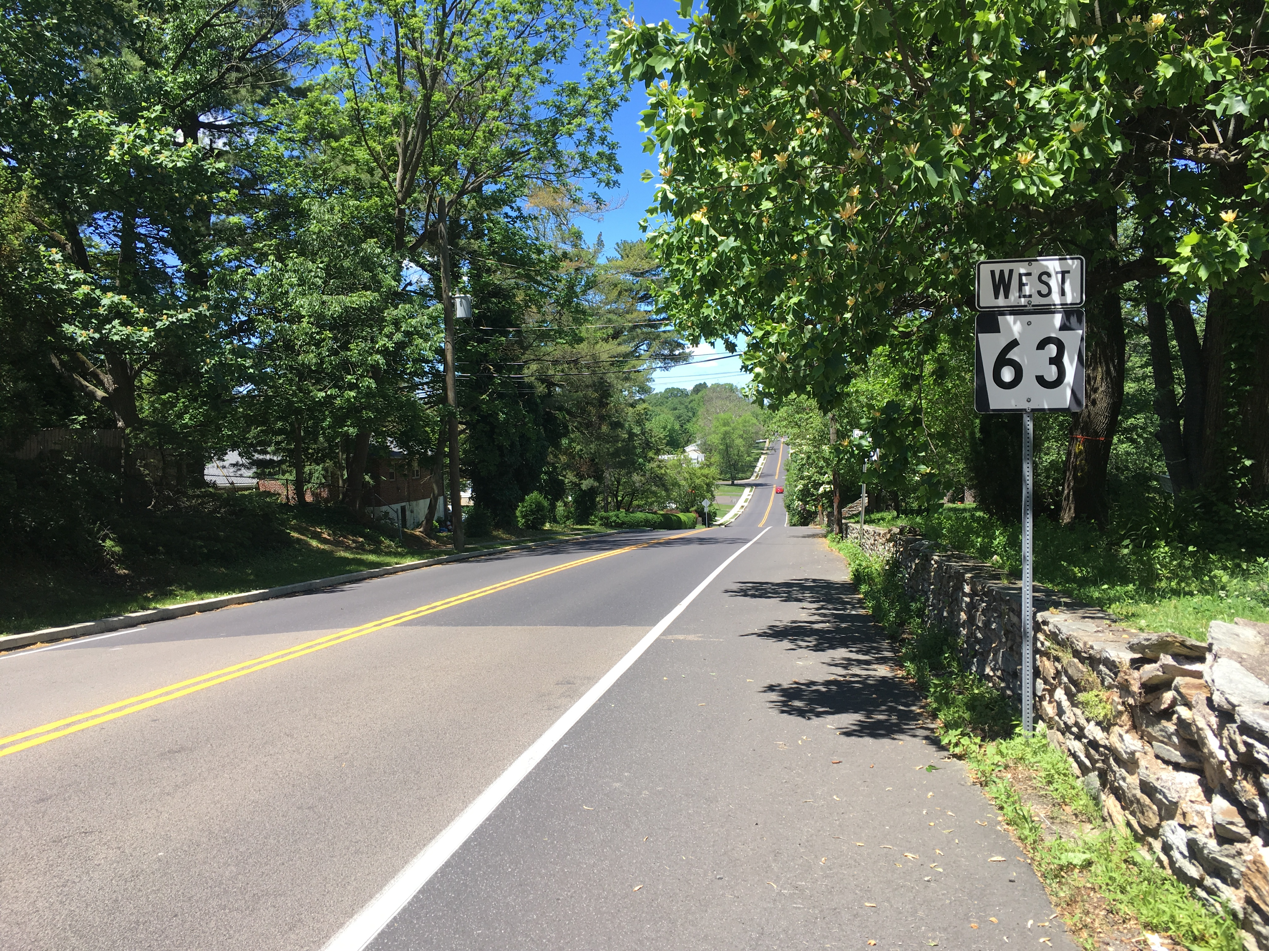 Westbound Pennsylvania Route 63 (Old Welsh Road) past the intersection with Huntingdon Road in Abington Township, Pennsylvania